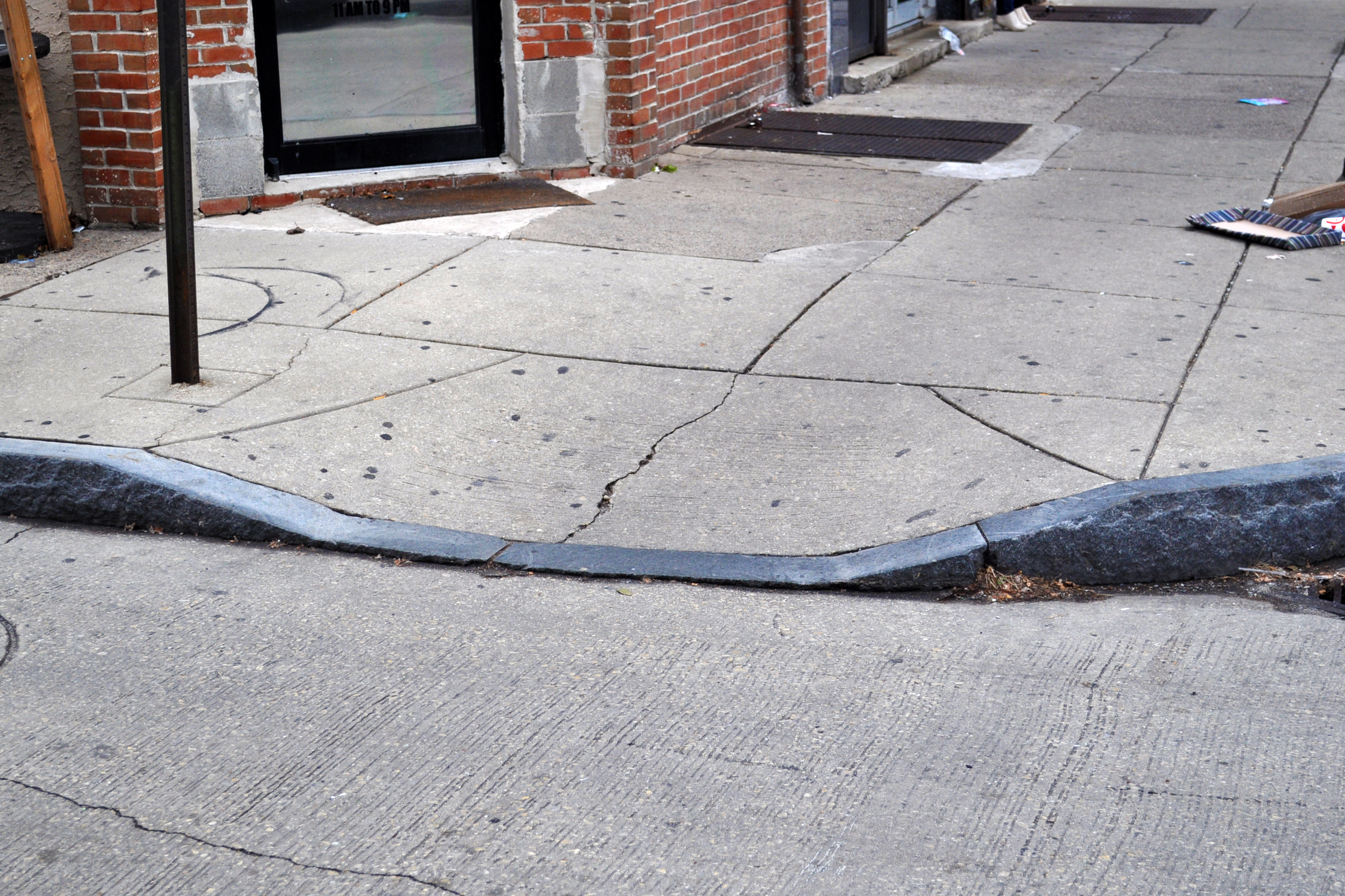 Sidewalk granite curb cut for wheelchair ramp